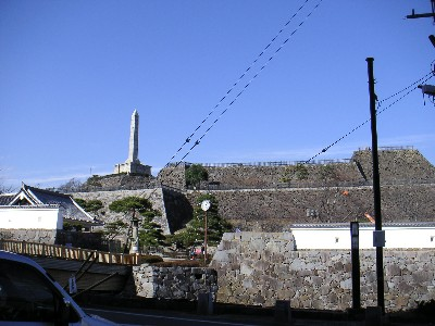 Kohu Castle photo by Ans